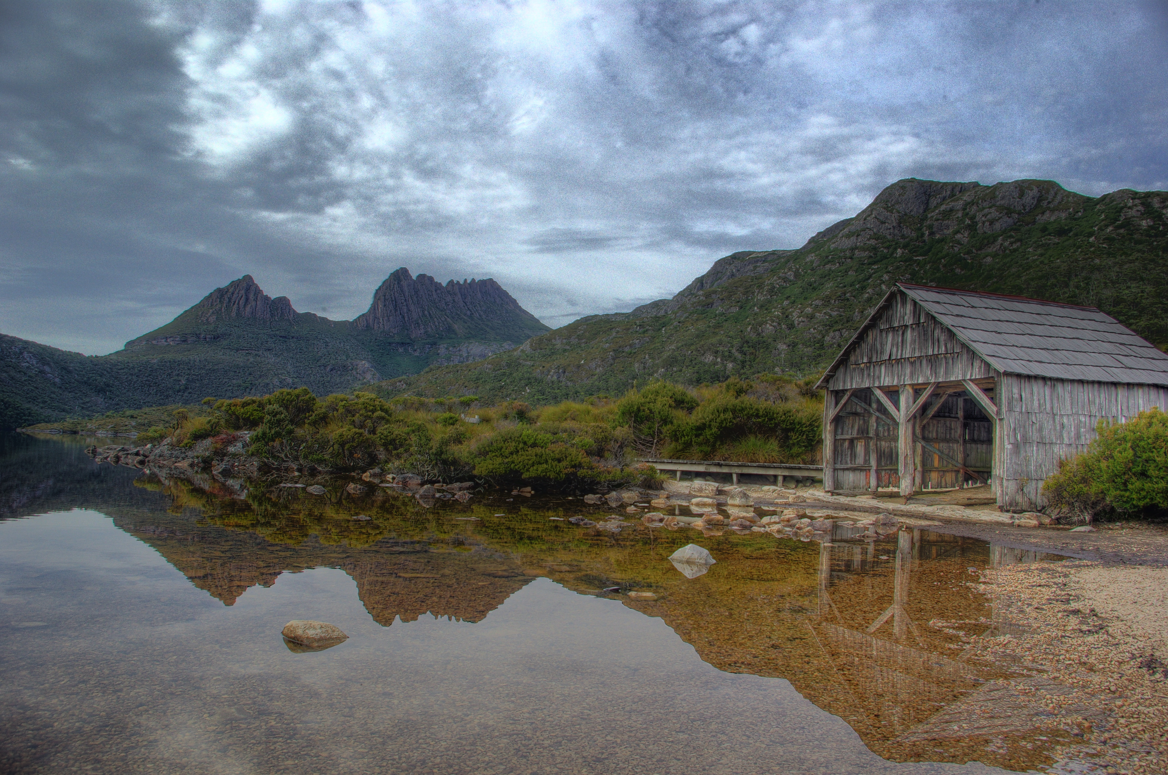 Classic view of Cradle Mountain over Dove Lake, with old boat shed in foreground. HDR from 5 photos, combined using PhotomatixPro. Retouched in Picasa (specks on sensor).